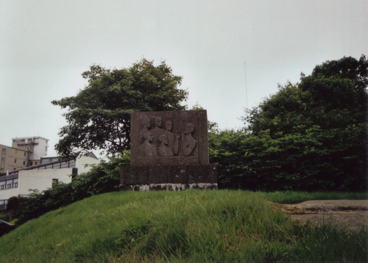 Monument at Býarpark, Tórshavn